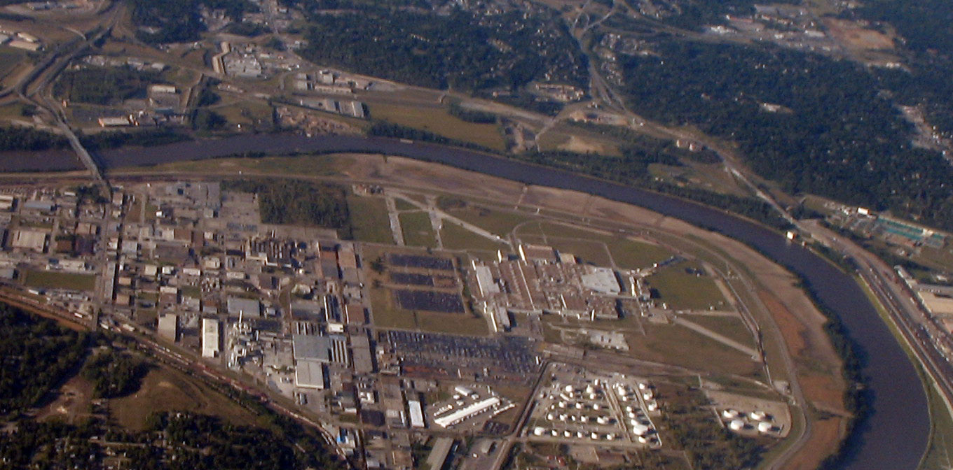 Fairfax Airport in September 2007. Photo by poster.